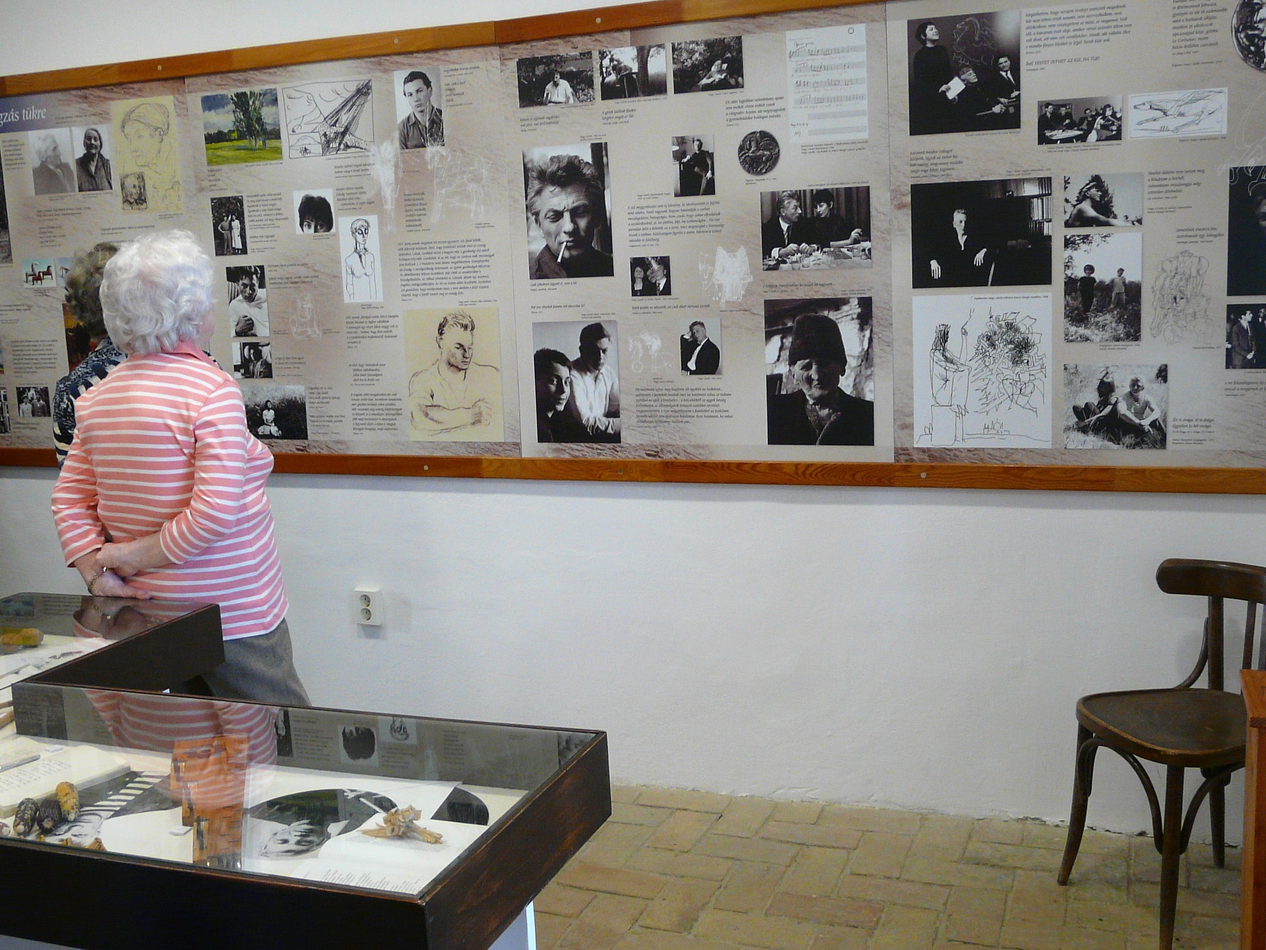 Memorial house of Hungarian poet Laszlo Nagy in Iszkáz (Veszprém County)